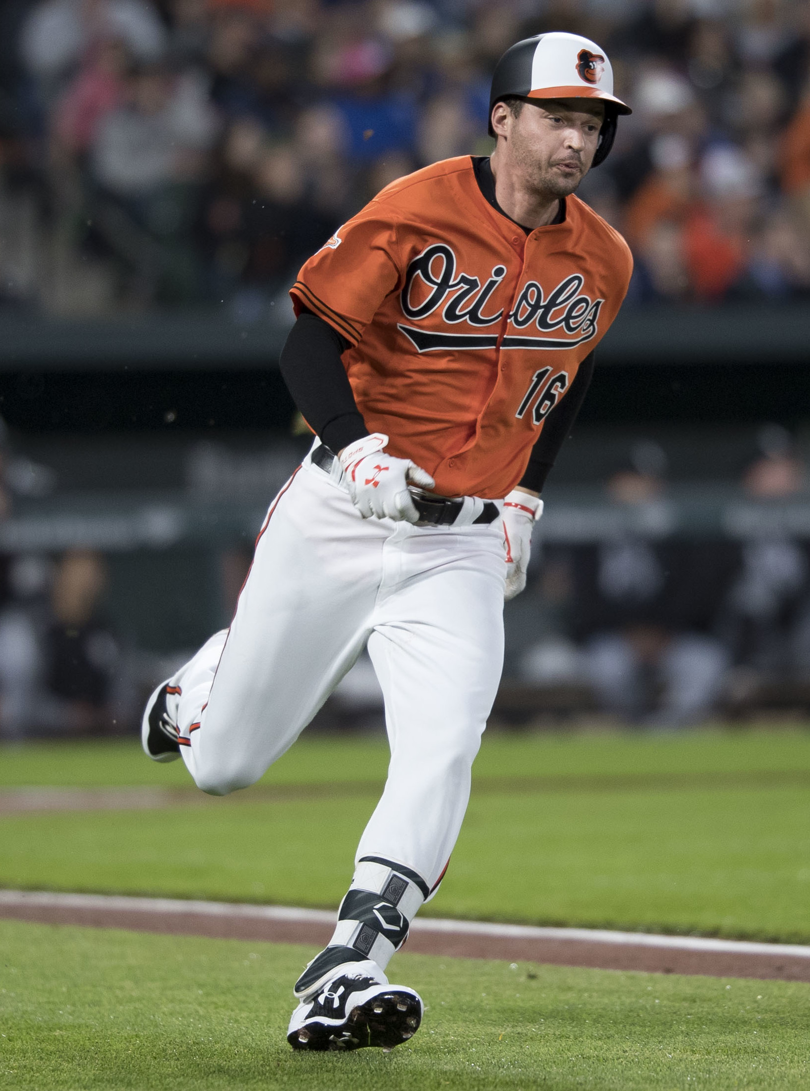 White Sox at Orioles 5/6/17